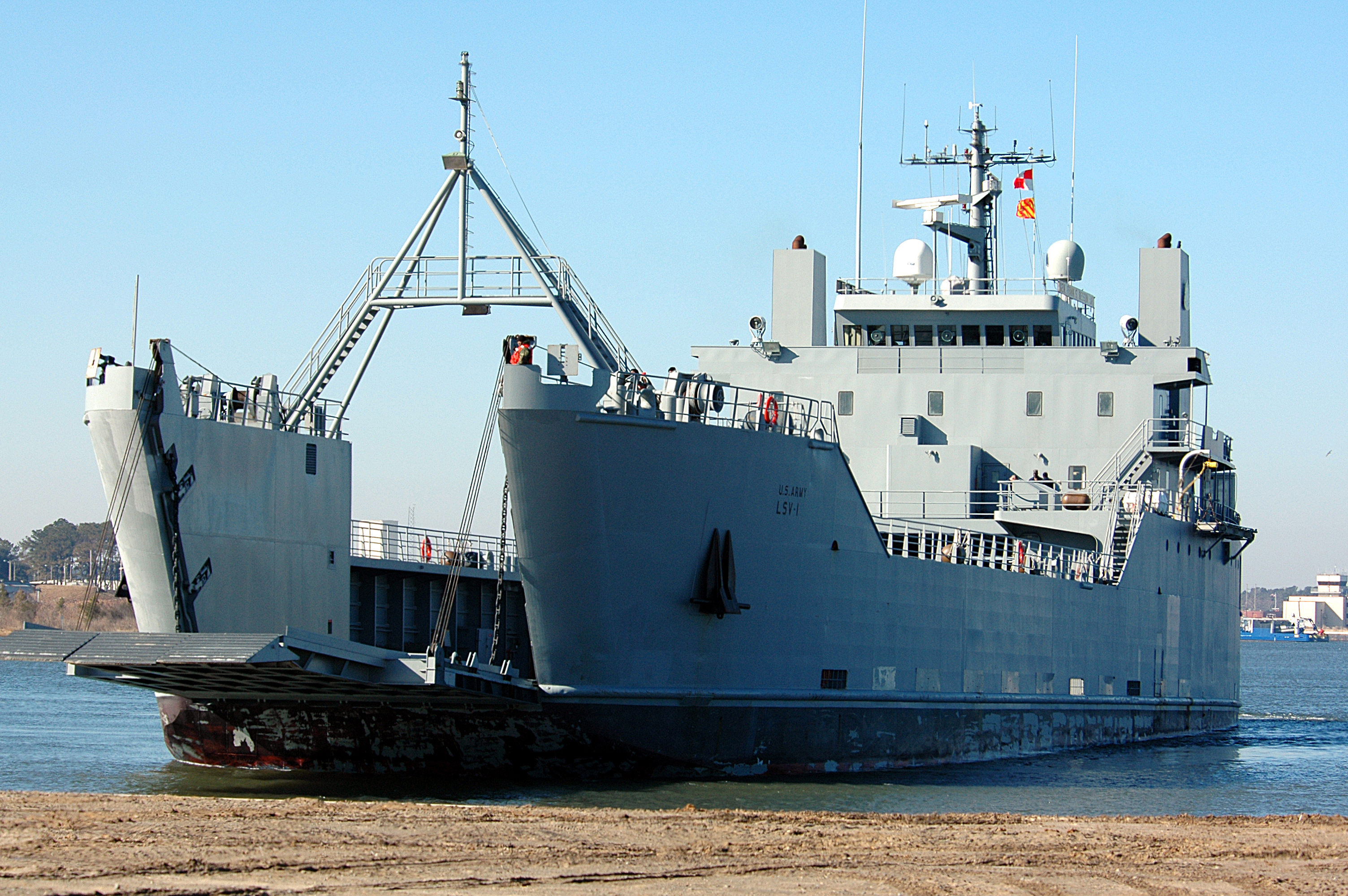 Norfolk, Va. (Feb. 5, 2005) – The U.S. Army logistic support vessel General Frank S. Besson Jr. (LSV 1) drops its bow ramp on a beach on board Naval Amphibious Base (NAS) Little Creek, Va., during a training evolution. The prime mission of the ship is the direct transport and discharge of liquid and dry cargo to shallow terminal areas, to remote under-developed coastlines and on inland waterways. It is capable of carrying 2,280 tons of vehicles, including 26 M-1 Abrams tanks, containers or general cargo. U.S. Navy photo by Photographer’s Mate 2nd Class Daniel J. McLain (RELEASED)